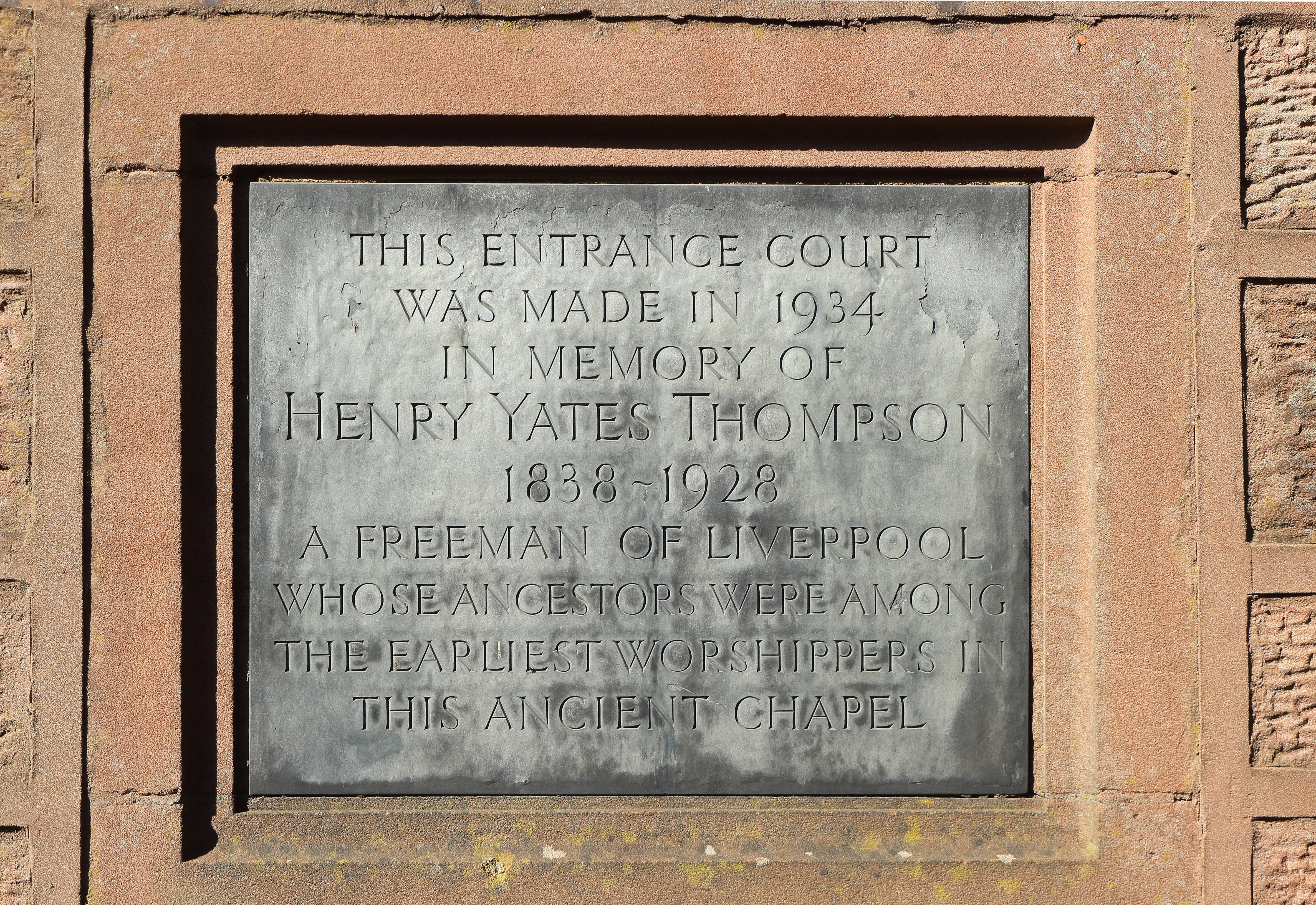 Memorial tablet to Henry Yates Thompson in the courtyard of the chapel.